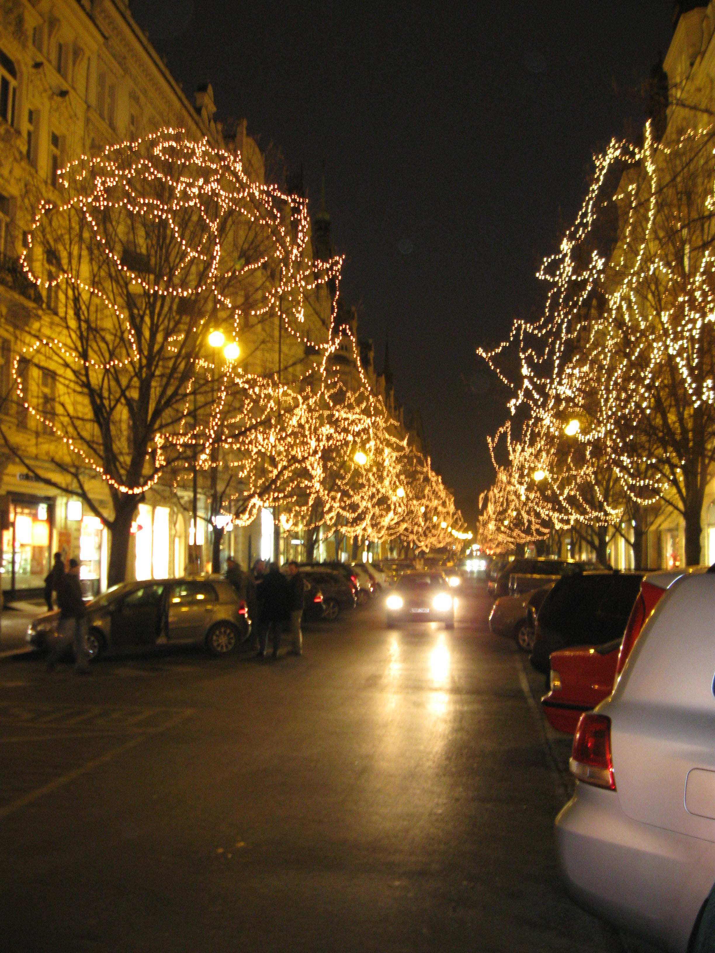 Pařížská street at night. Česky: Pařížská v noci (Praha).